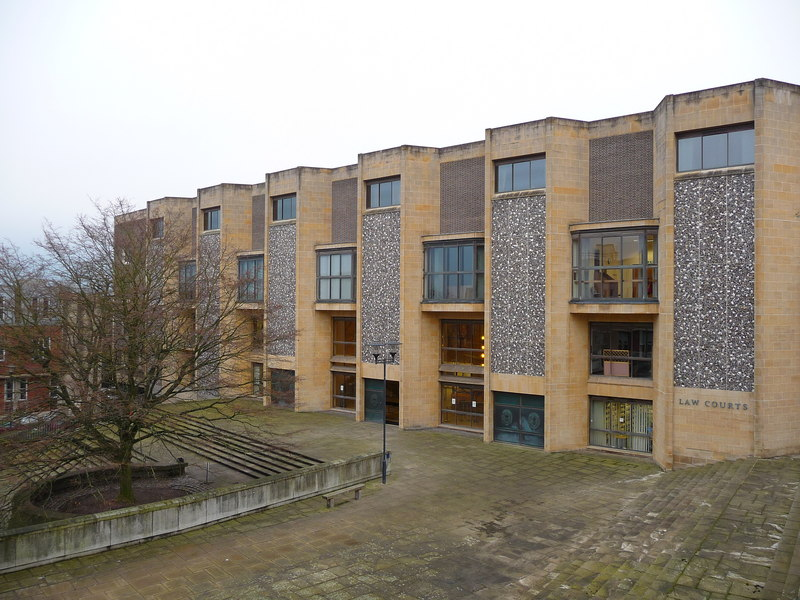 External shot of front of Winchester Combined Court Centre